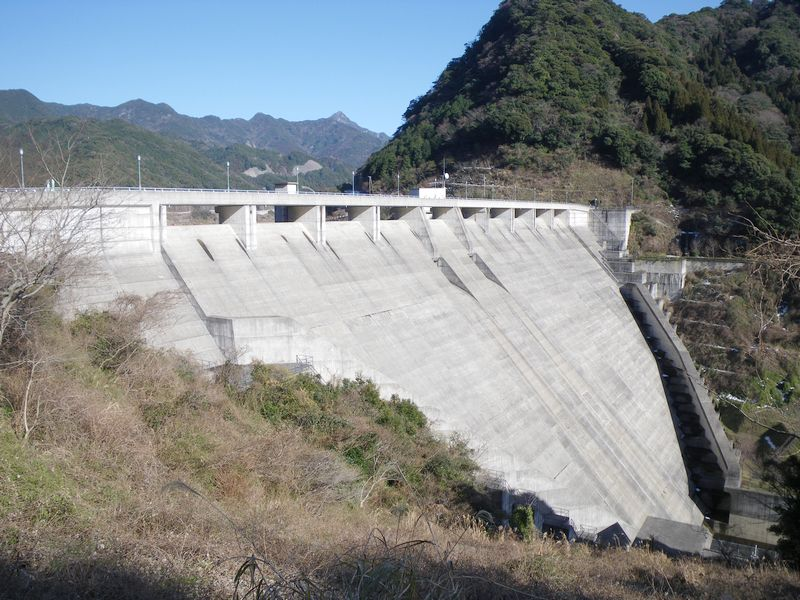 Kayazedam,Kori river,Omura city,Nagasaki